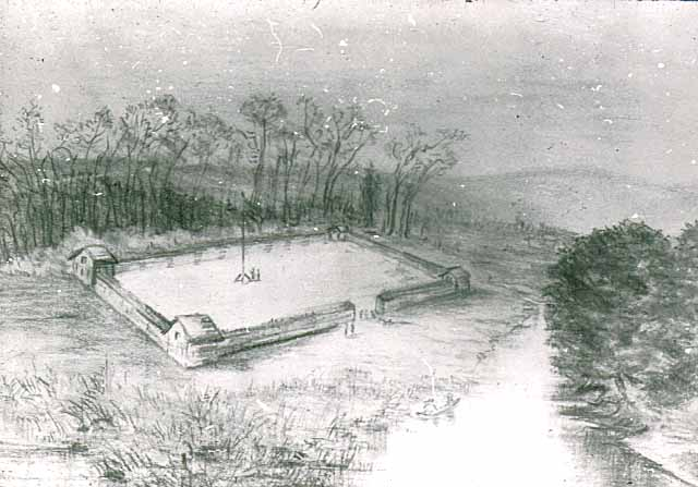 Camp New Hope Cantonment part of Fort Snelling in Dakota County, MN